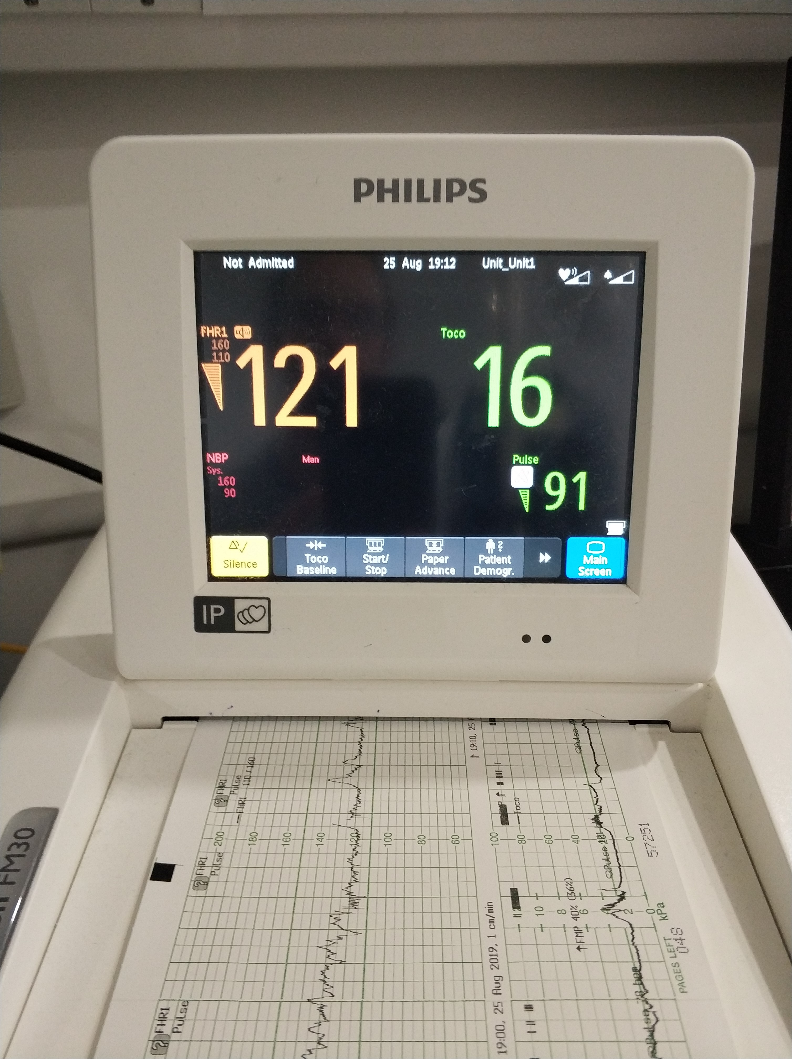 Cardiotocography